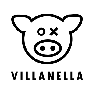 Logo for arts centre Villanella (Antwerp, Belgium) designed by Tom Hautekiet